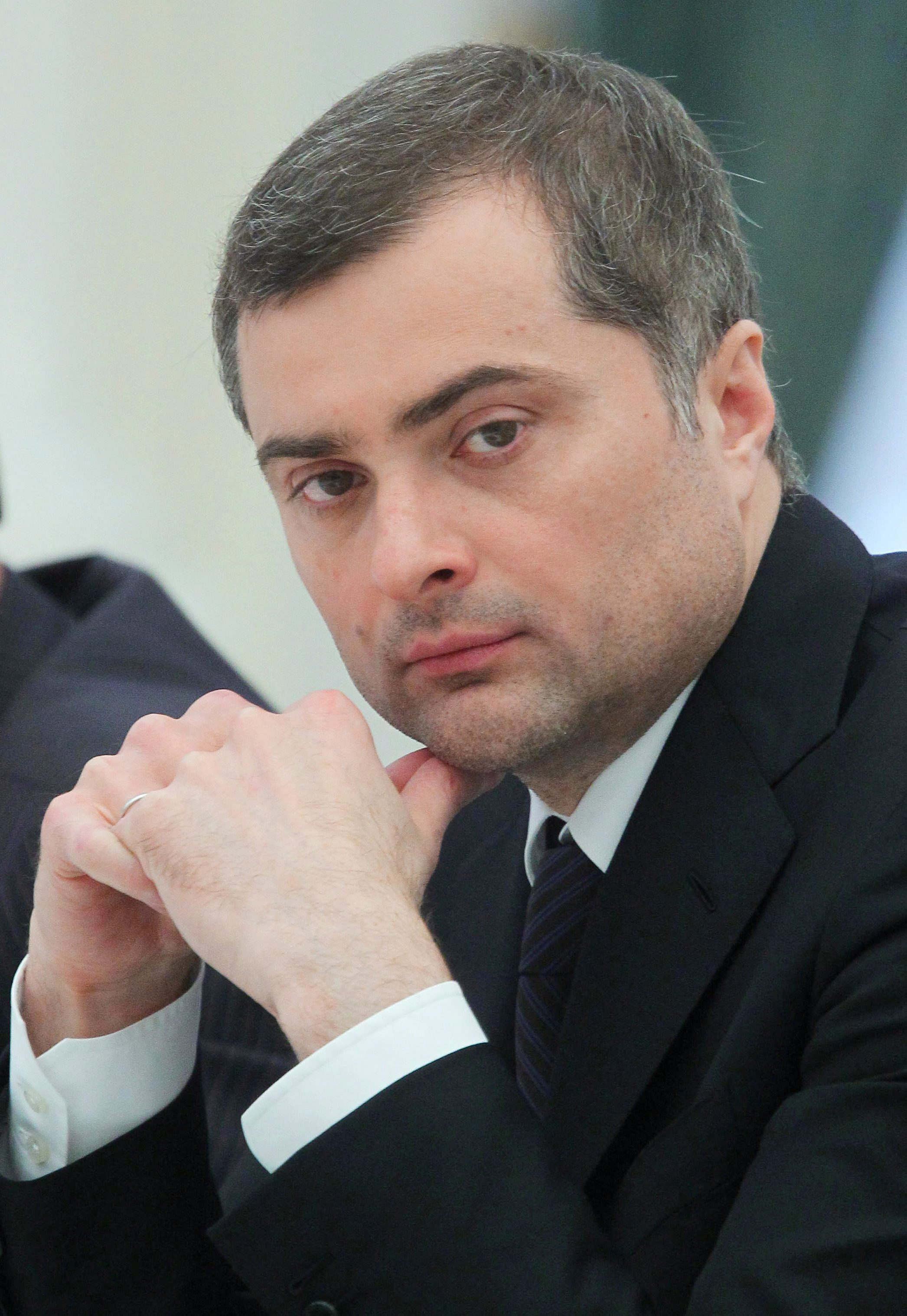 At a meeting on the implementation of the Presidential Decree of May 7 2012 year. Deputy Prime Minister — Head of Government Staff Vladislav Surkov.